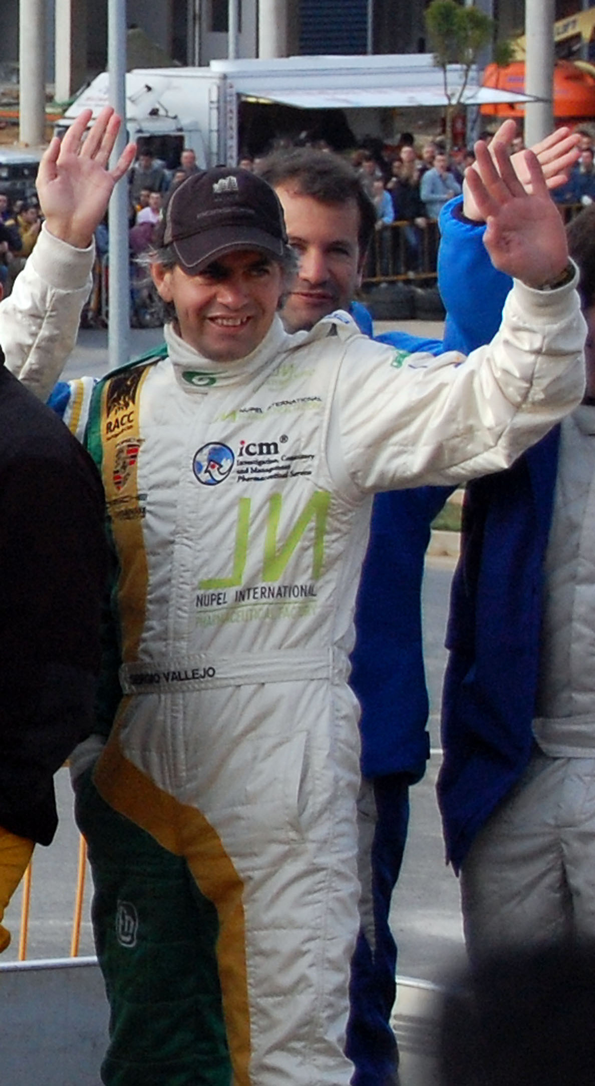 Spanish Rally driver.